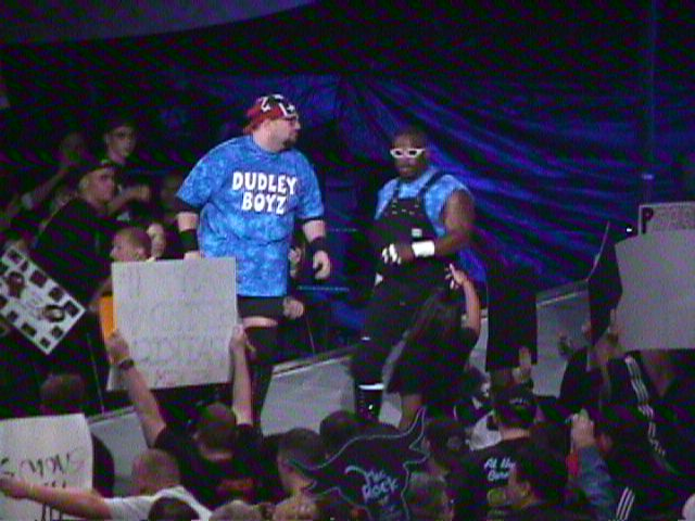 The Dudley Boys ready to rumble.